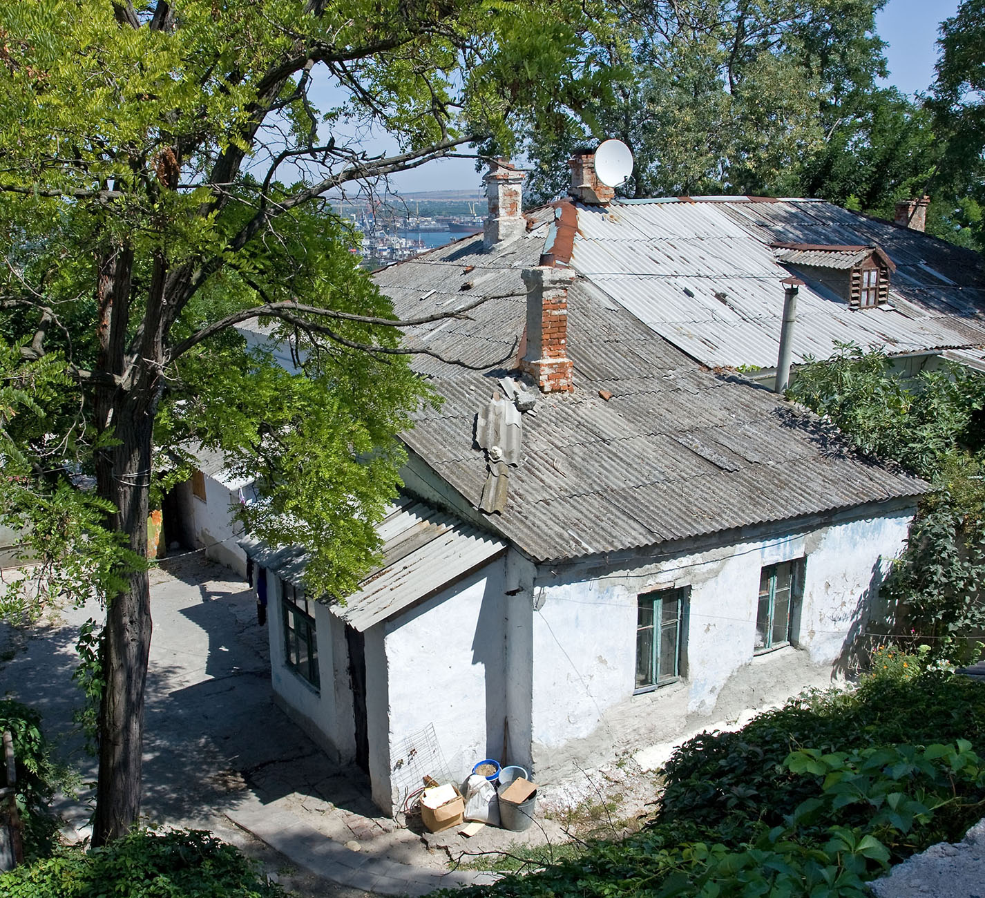 House in Kerch, Crimea.